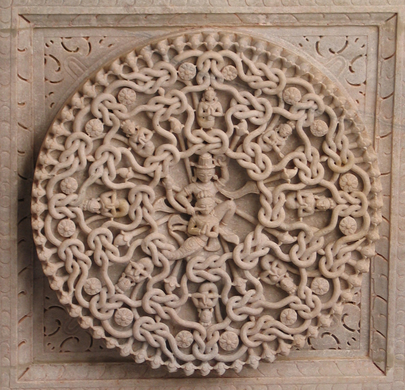 Jain Temple ceiling ornament, Ranakpur, Rajasthan, India